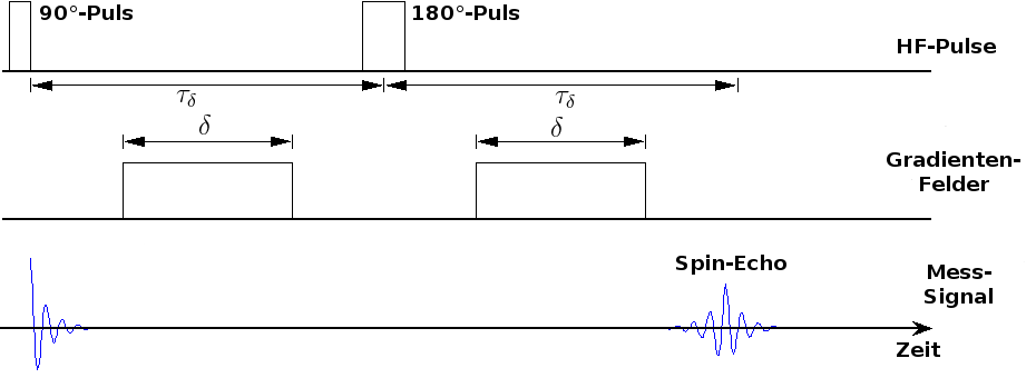 Scheme of the Stejskal-Tanner sequence, used in diffusion tensor magnetic resonance imaging. All labels are in German.